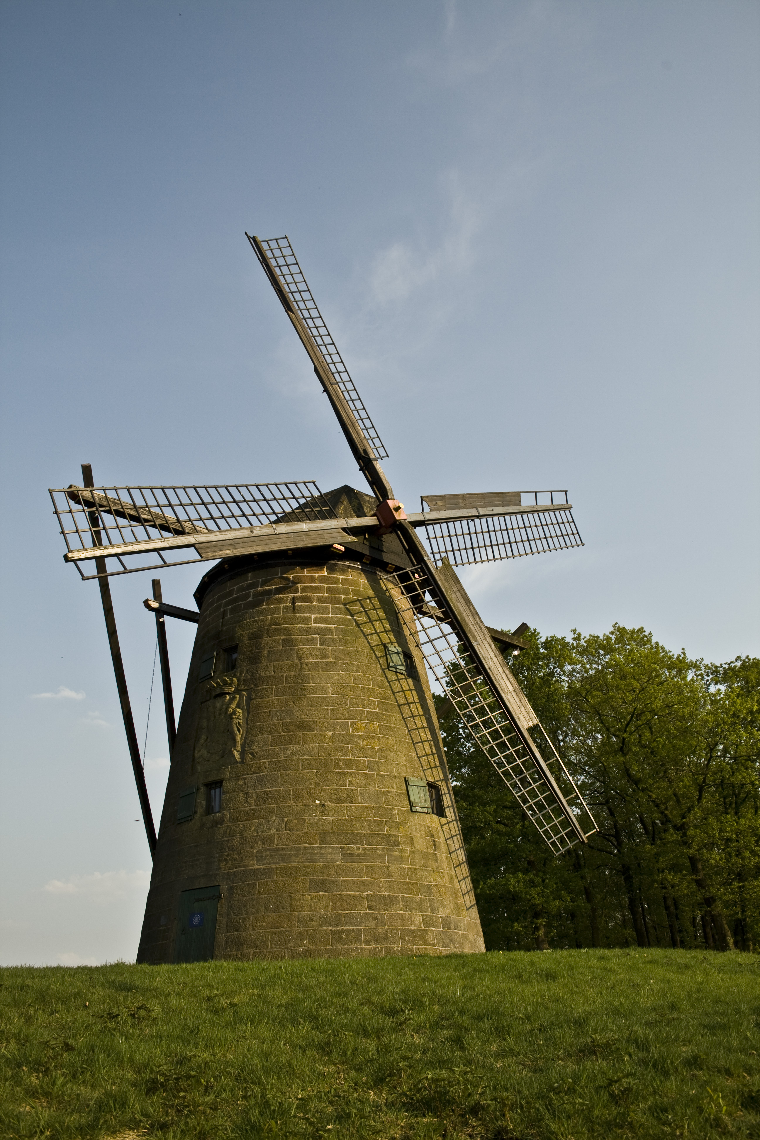 The windmill of Uelsen. Lower Saxony, Germany.